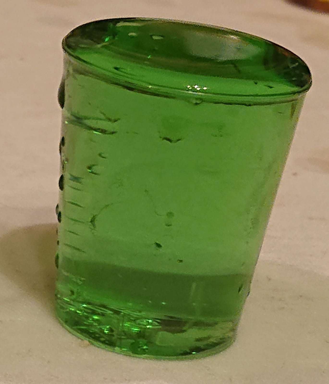 Surface tension in a filled shot glass